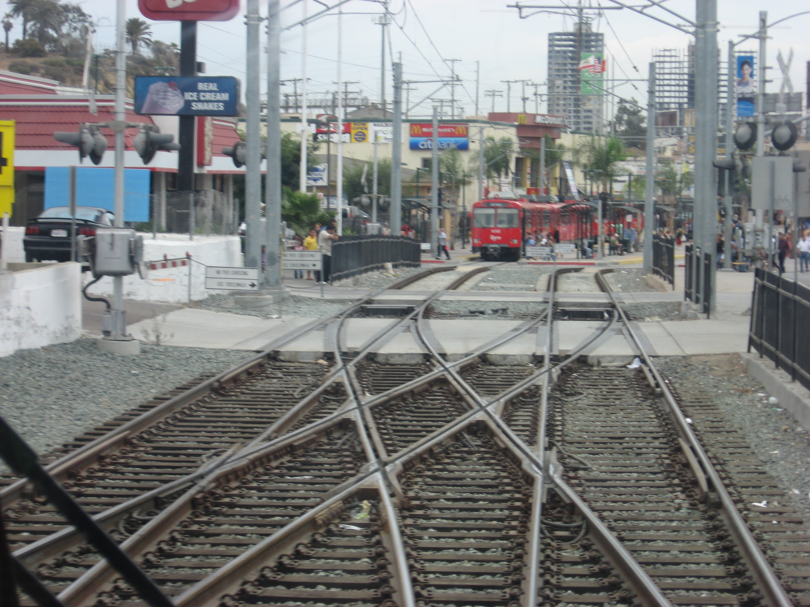 San Ysidro Transit Center in San Diego, CA